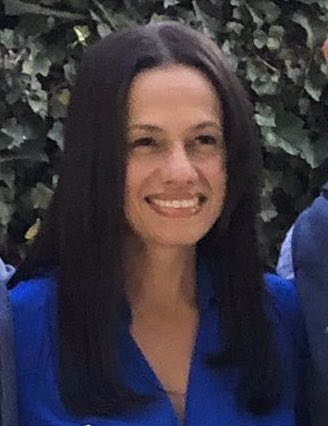 Alexis McGill Johnson